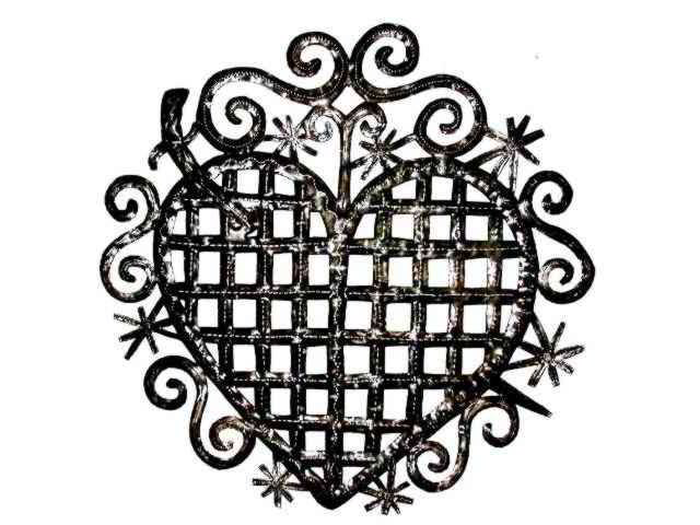 Metalwork reproducing Ezili Dantor's vevé.